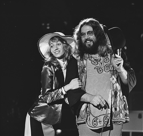 Mouth & MacNeal in AVRO's TopPop (Dutch television show) in 1973